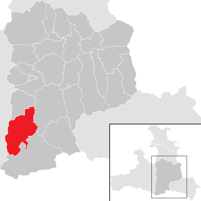 District Sankt Johann im Pongau